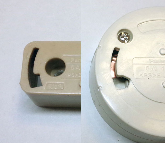 Japanese Ceiling Rosette (Close-up figure 1 of Neutral pin)